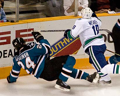 Defencemen Mike Weaver and Sandis Ozolinsh collide in a game in 2007. Original description: "Vancouver Canucks vs. San Jose Sharks"